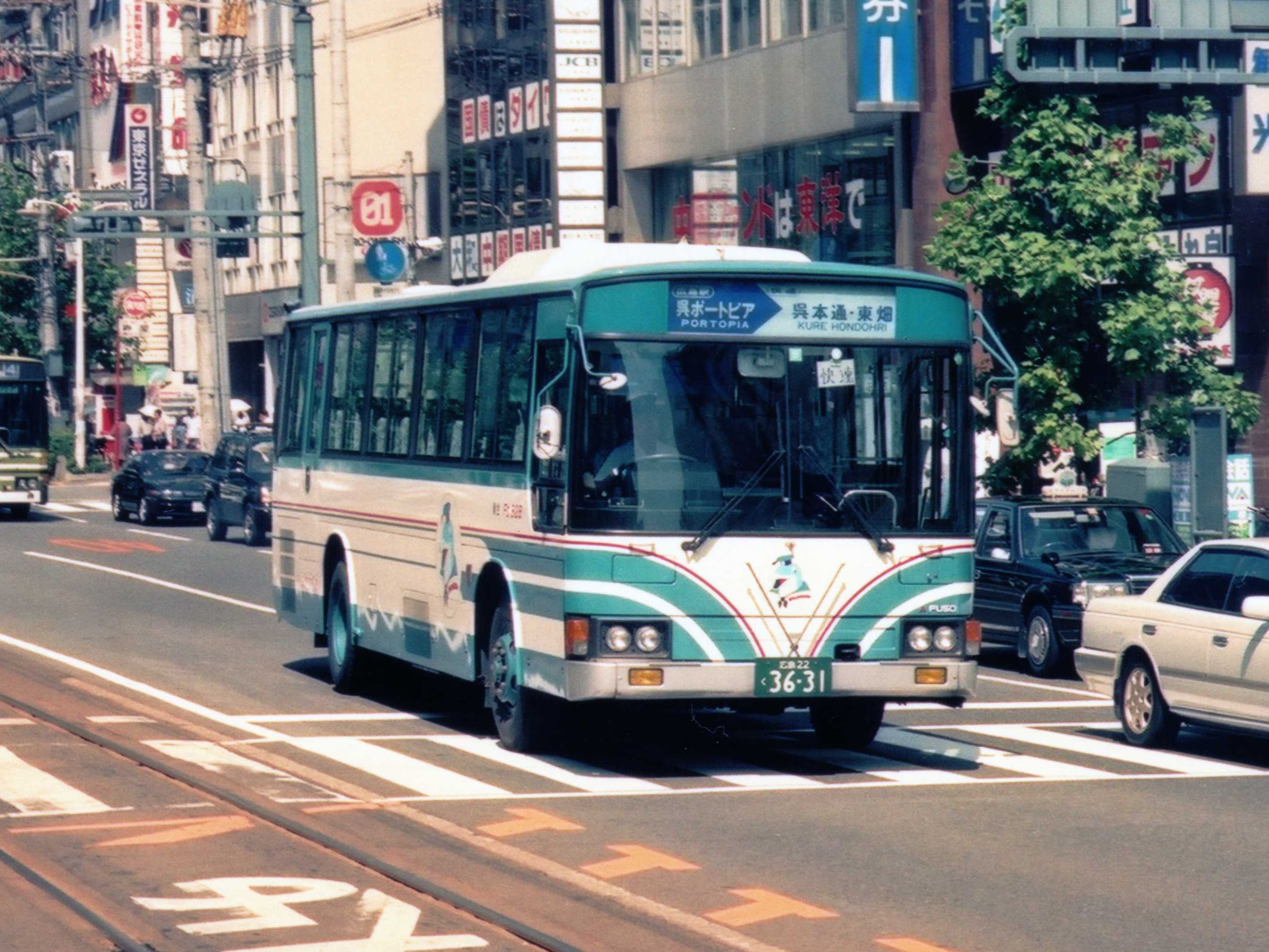 Kure City Bus